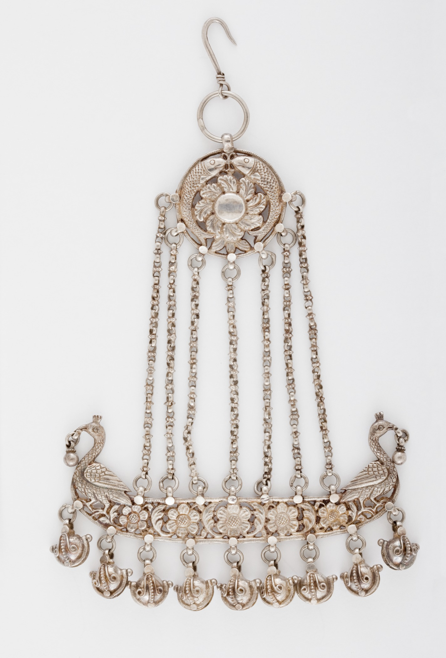 India, Uttar Pradesh, Awadh, Lucknow, circa 1800-1850 Jewelry and Adornments Repoussé silver 5 13/16 x 4 3/8 in. (14.8 x 11.2 cm) Southern Asian Art Council in memory of Ranjit and Aruna Roy (M.2006.133) South and Southeast Asian Art